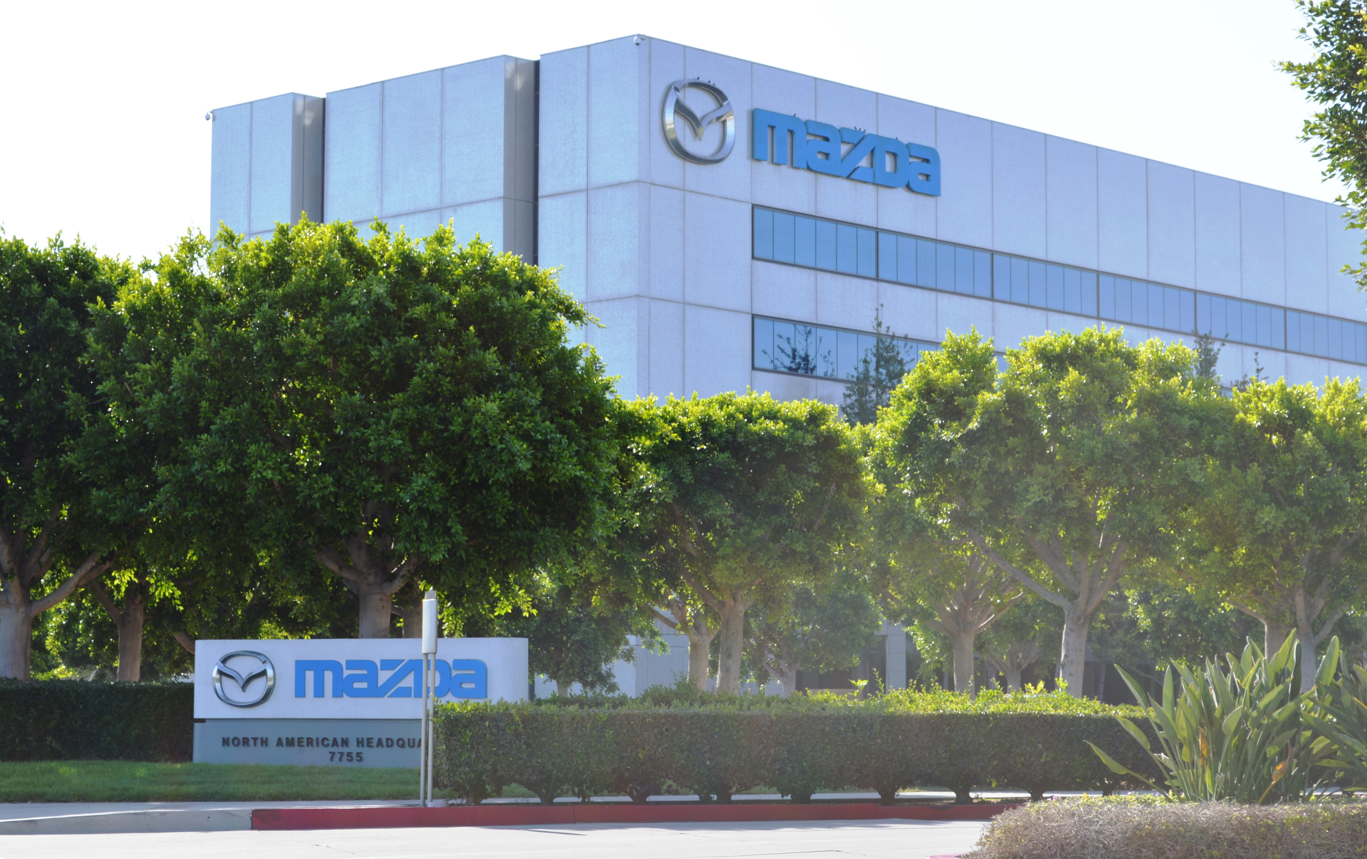 Mazda North American Operations (MNAO) headquarters on Irvine Center Drive at Barranca Parkway, next to Ford Motor Company's Irvine offices and the Taco Bell headquarters, by Interstate 5.